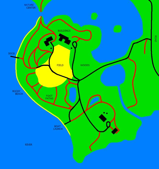 Map of Chaypee in Dartmouth, Massachusetts